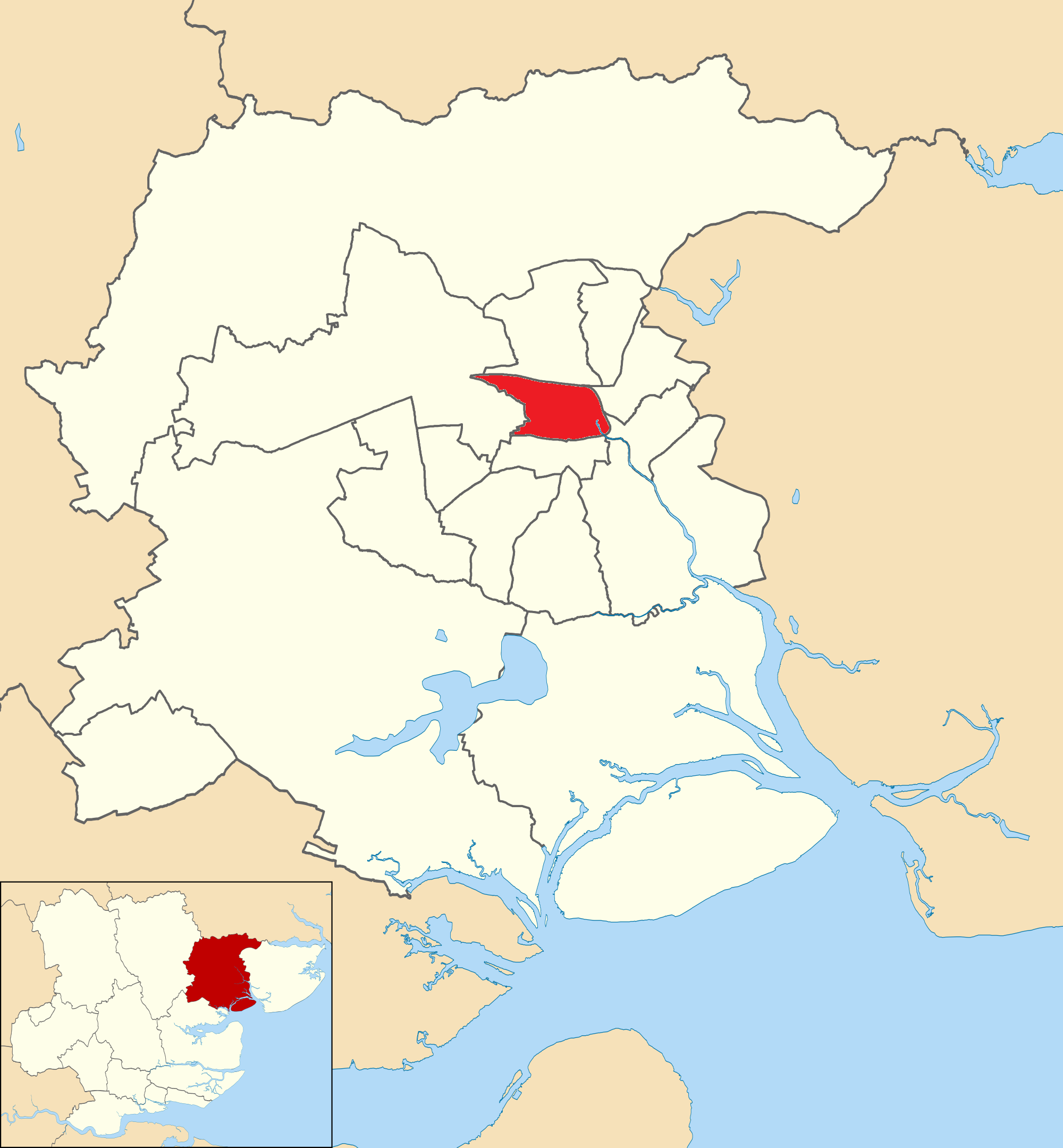 Castle ward highlighted within Colchester Borough